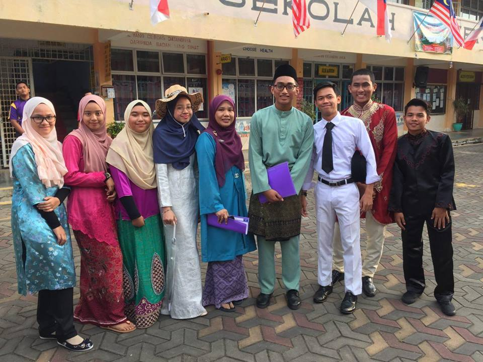 Persembahan pelajar lakonan Perjanjian British dan Tunku Abdul Rahman